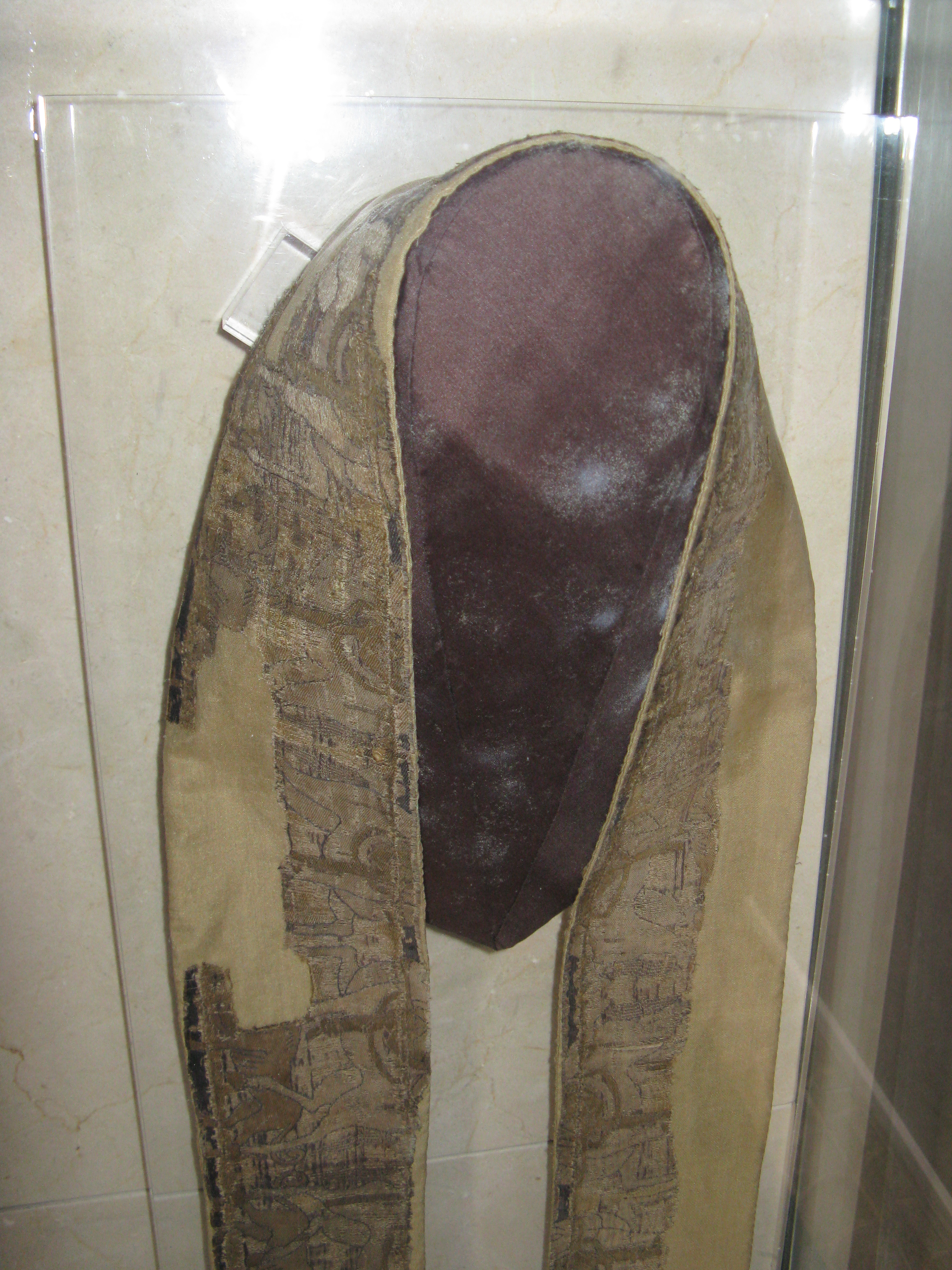 Saint Paul Aurélian's stole, in the church of the Batz island (France). Oriental piece of tissu of the 8th century. The drawing represents two hunters riding horses and facing each other. The colours are blue, white, yellow and brown. The stole is similar to the ones made in Assyria and Persia several centuries before our era.